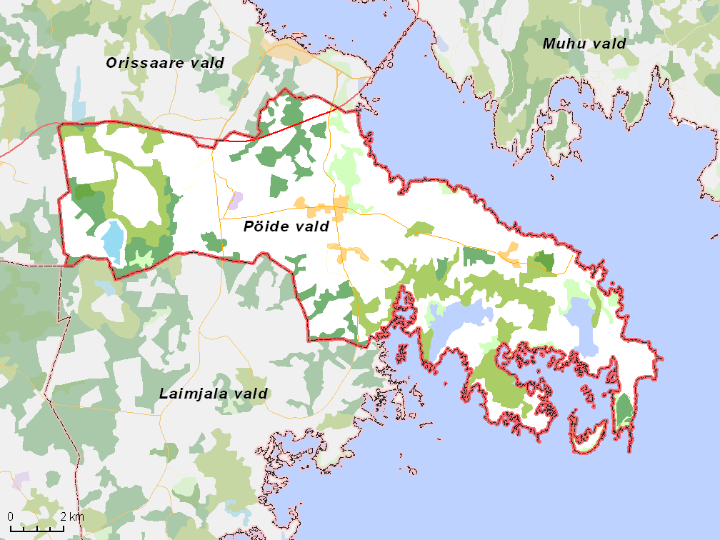 Map of municipality in Estonia